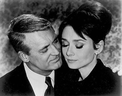 Screenshot from Charade showing Cary Grant and Audrey Hepburn.